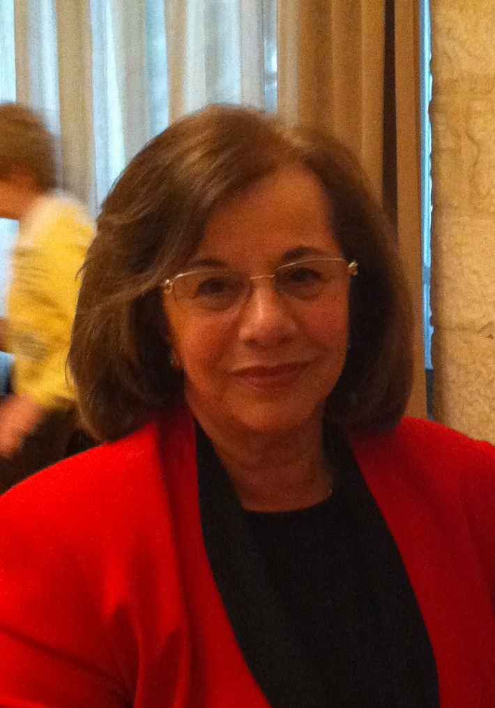 The Palestinian Minister of Education and Ed Bice meeting in the West Bank